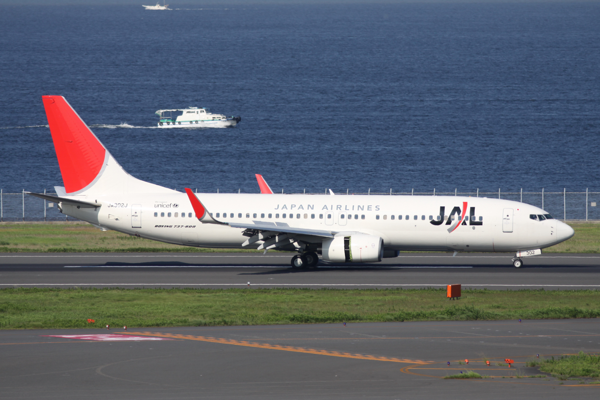 Runway 16L, Tokyo International Airport